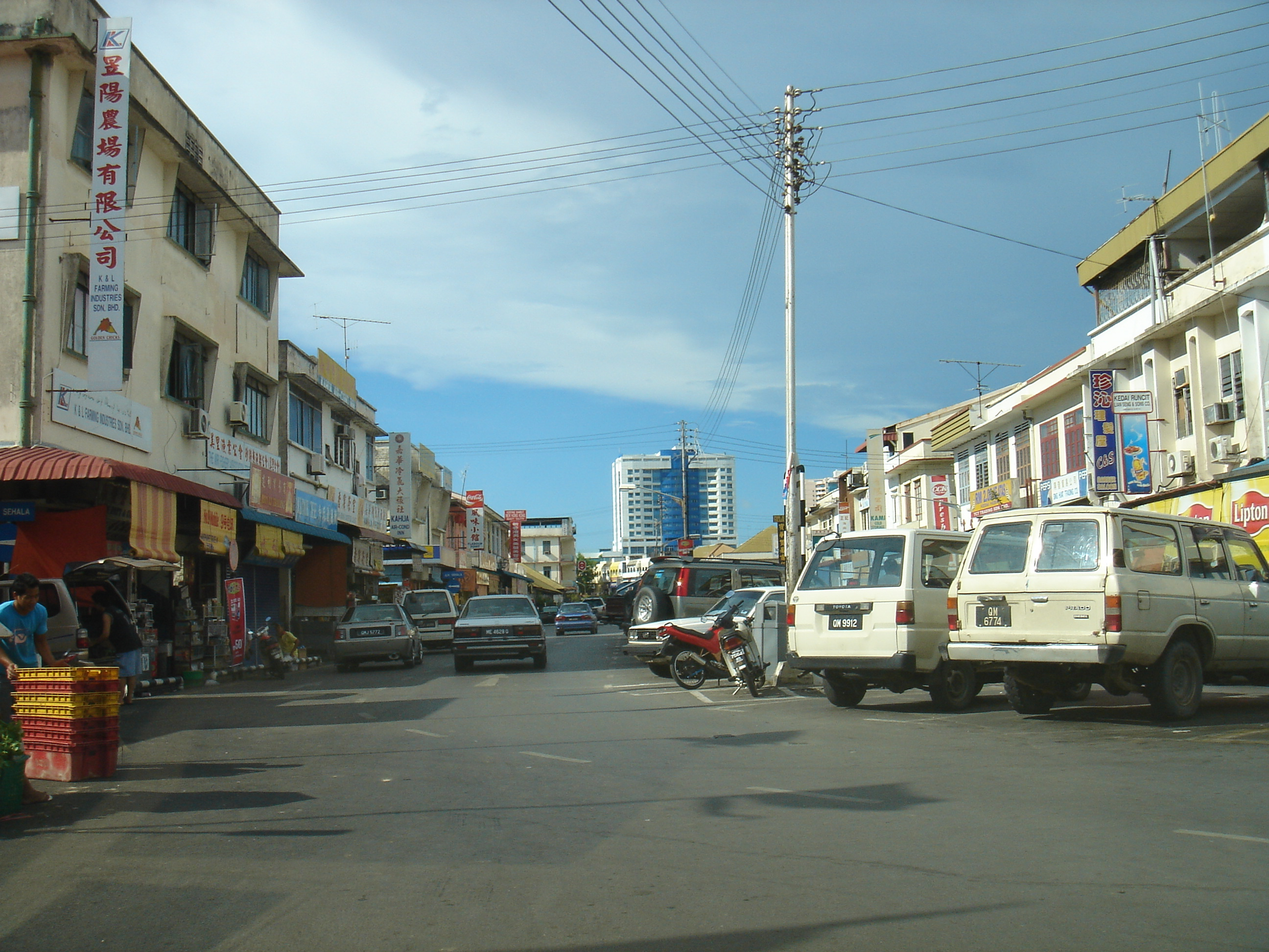 Older section of the city Miri, Sarawak, East Malaysia.